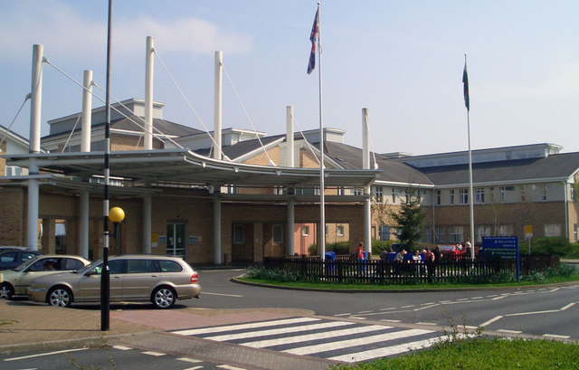 Royal Glamorgan Hospital Main entrance of the Royal Glamorgan Hospital. This district general hospital was opened in 2000 and replaced the former East Glamorgan Hospital at Church Village.